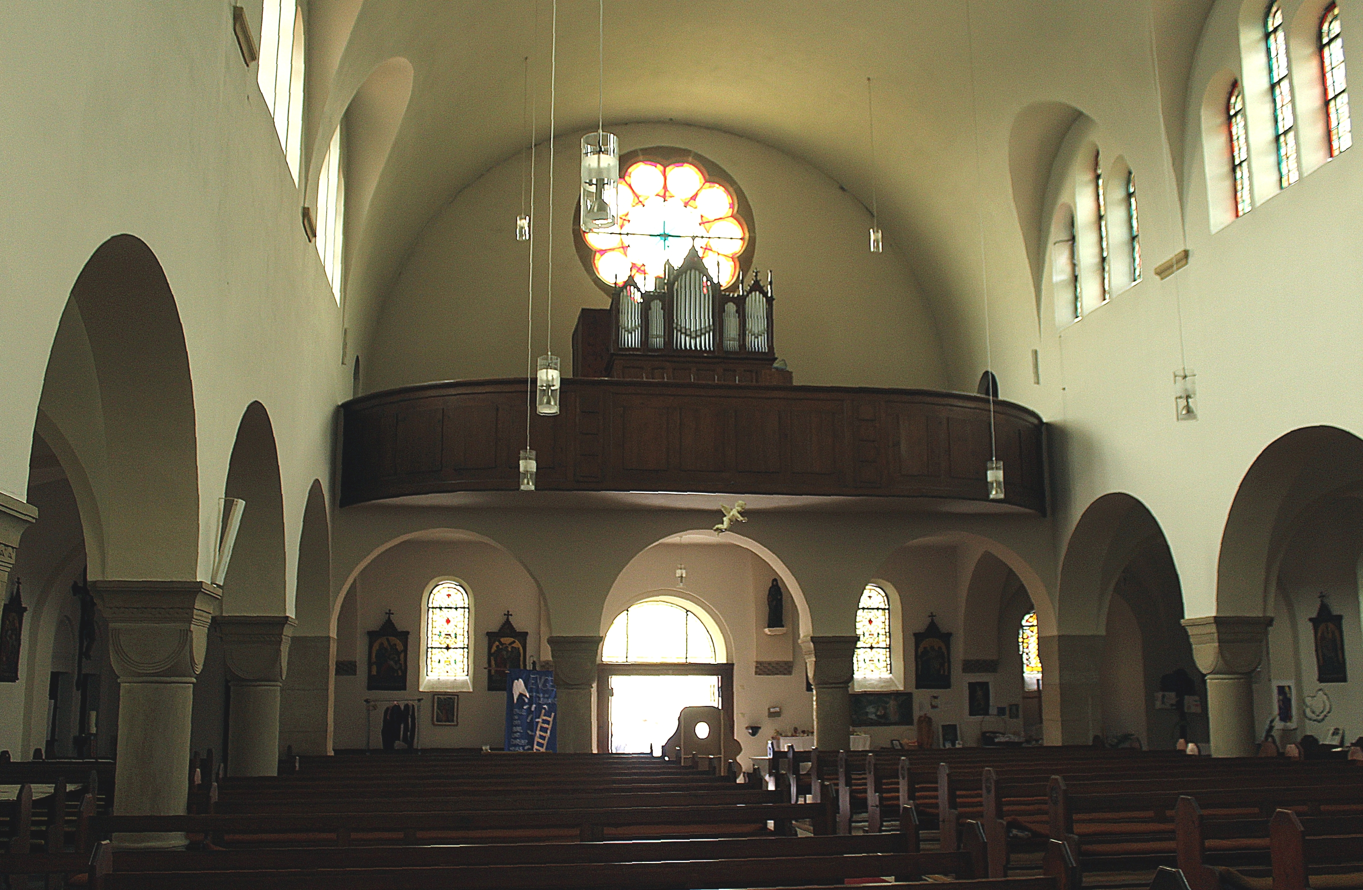 Helbra, Catholic church St.Barbara, inner view